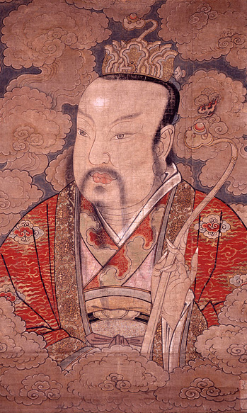 Devadatta, Sojiji, Yokohama, Kanagawa, Japan